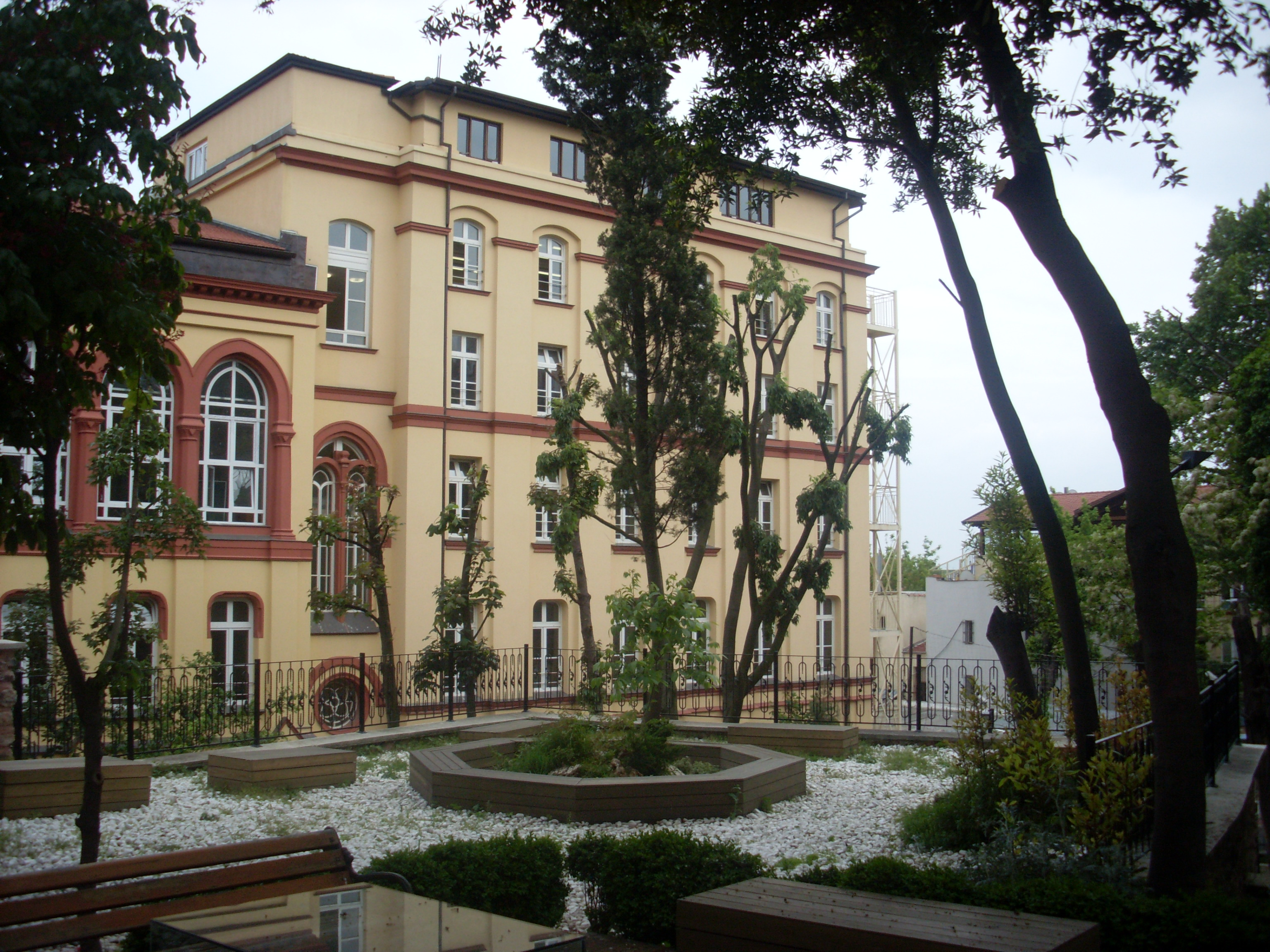 Galata Mevlevihanesi Müzesi 10